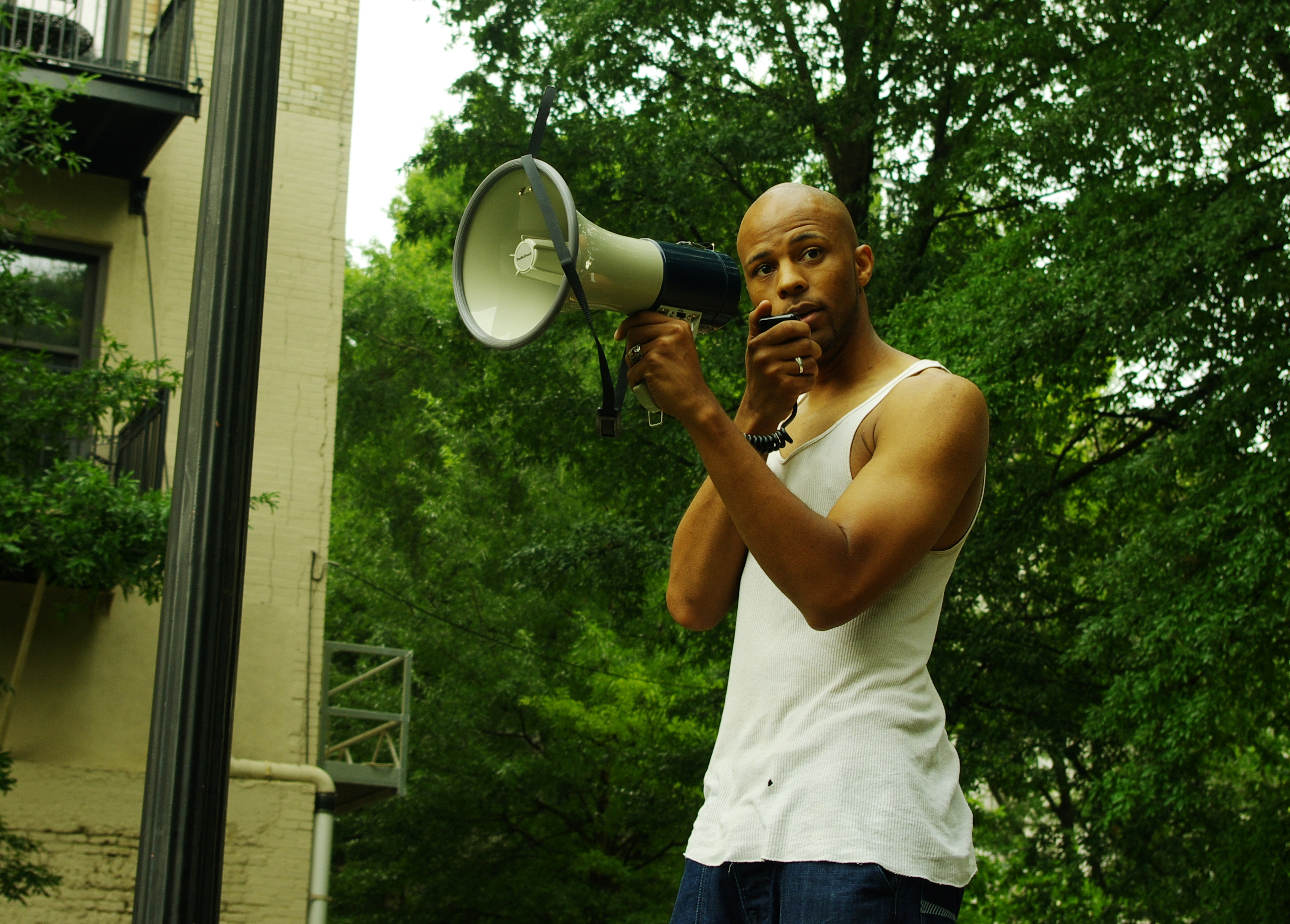 Andre Canty of the Highlander Research and Education Center addresses the "Justice for Trayvon Martin Rally" at Krutch Park in Knoxville, Tennessee, United States. The rally was held in the wake of the shooting of Trayvon Martin and the subsequent acquittal of the shooter, George Zimmerman.